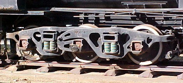 South African Railways Buckeye bogie on Type MX tender of Class 19D no. 2696 at Volksrust